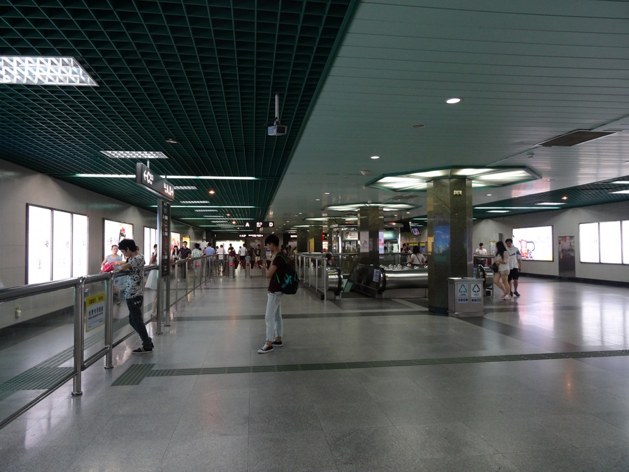 陳家祠站嘅站廳